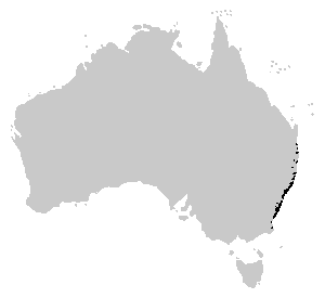 Distribution of the Jervis Bay Tree Frog (Litoria jervisiensis).